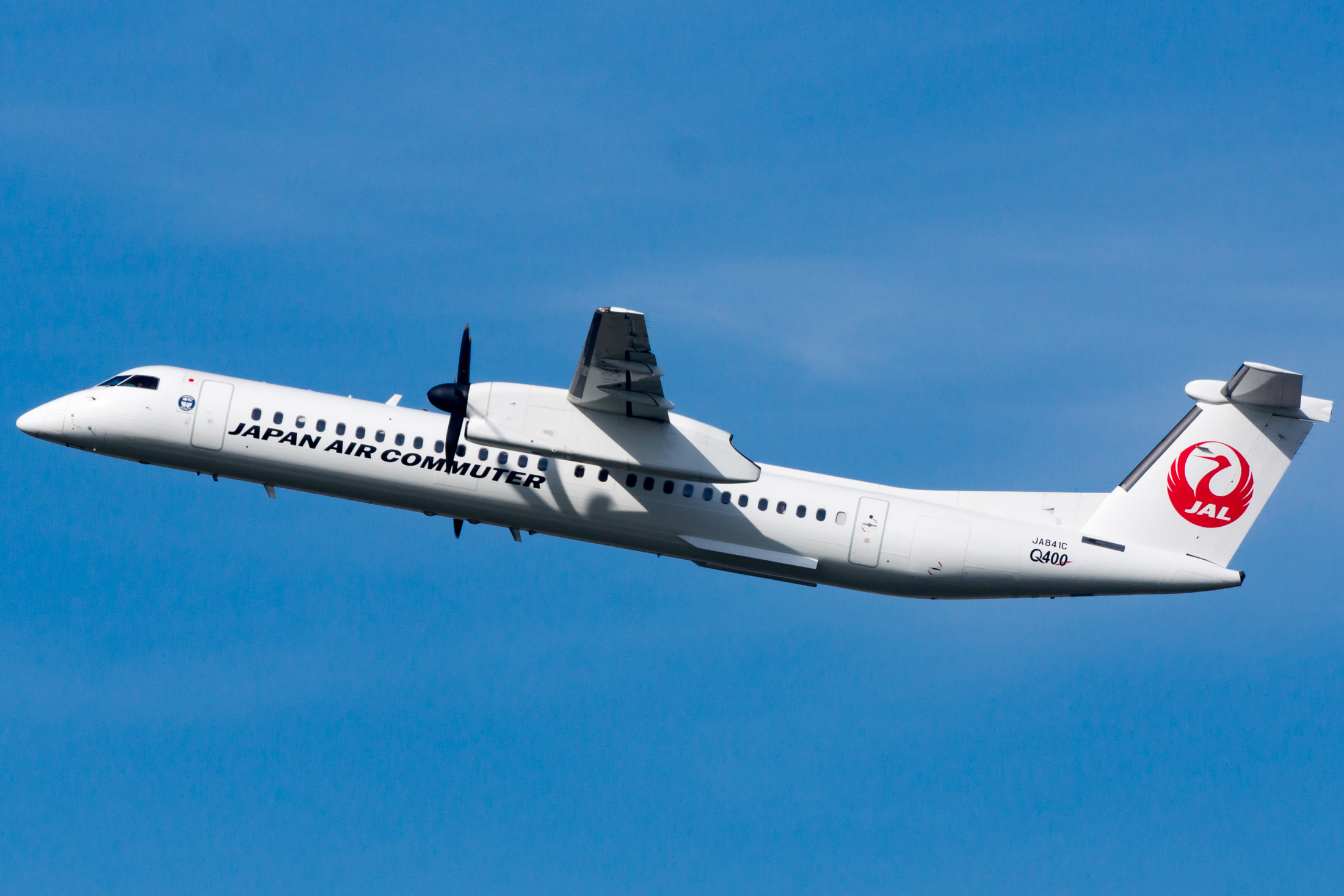 A Bombardier DHC-8-400 of Japan Air Commuter in the new Crane livery.